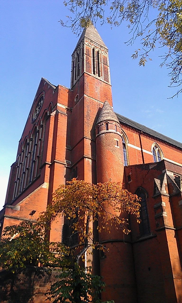 Exterior of St John the Evangelist in London Borough of Croydon.